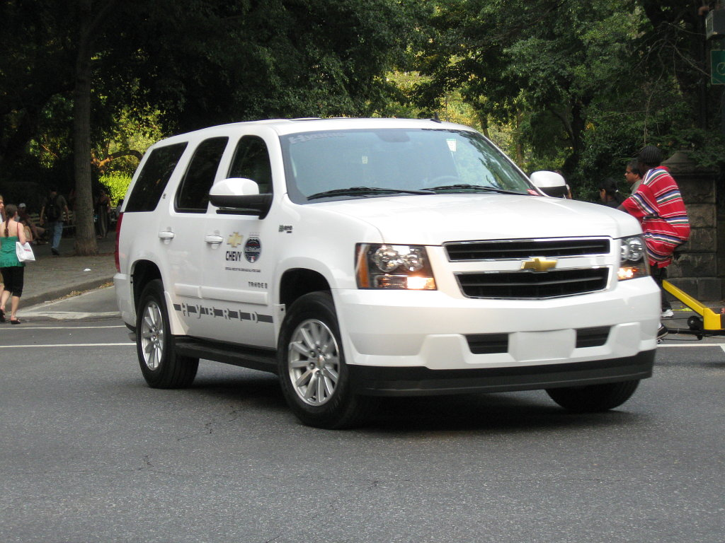 A Chevrolet Tahoe hybrid leaves the Tavern on the Green. This is one of several vehicles that was used by MLB ahead of the 2008 All-Star Game.